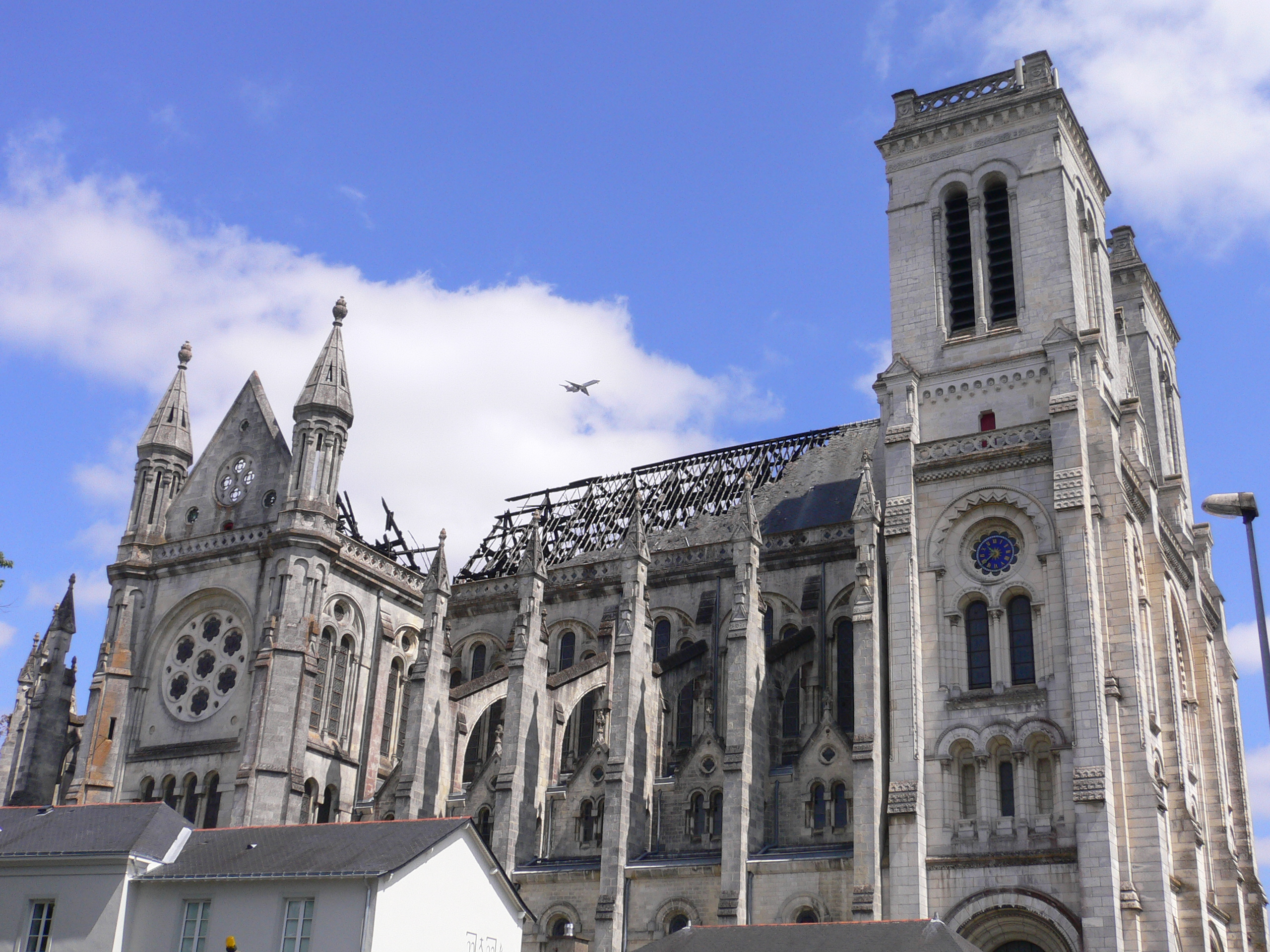 After the fire on the roof.